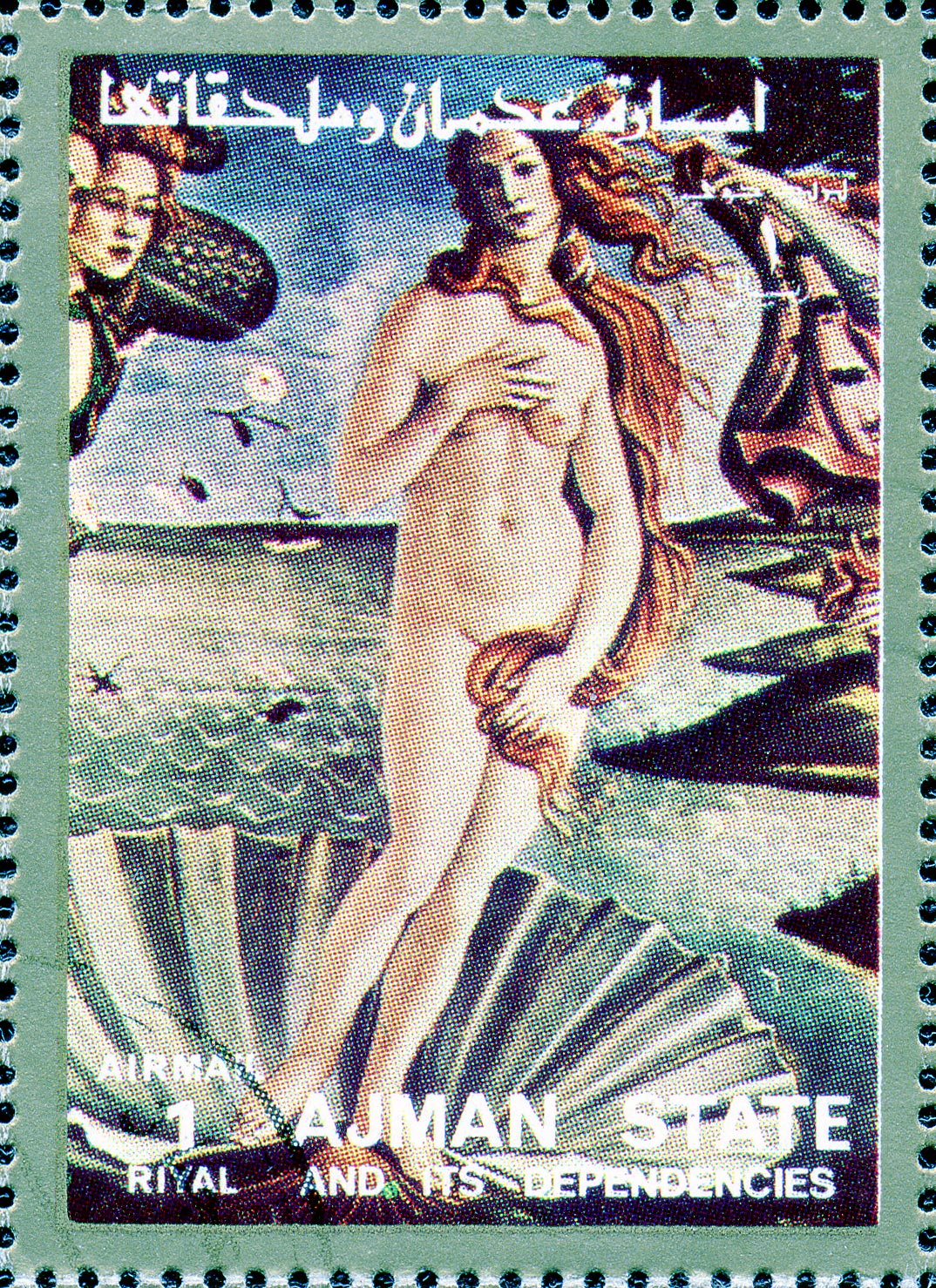 Stamp of the United Arab Emirates